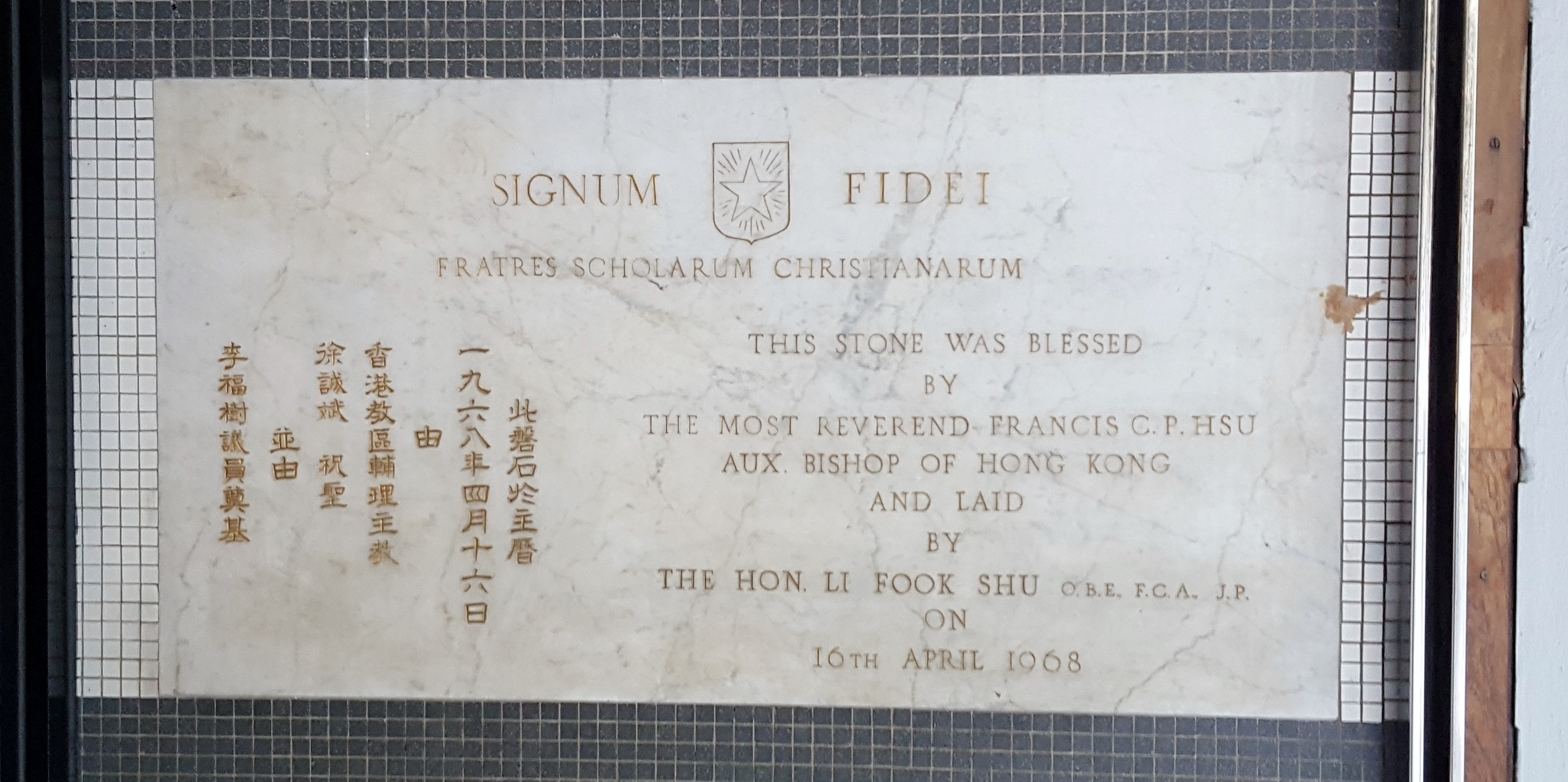 中文（香港）: The foundation stone of St Joseph's Primary School in Wan Chai, Hong Kong